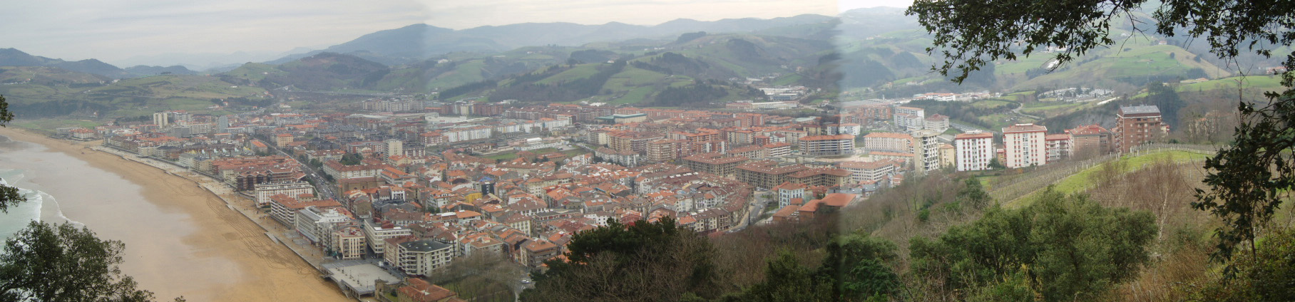 Panoramic view of Zarautz (Gipuzkoa) from Santa Barbara mountain.